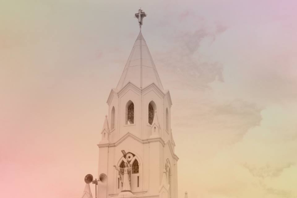 Sacred Heart Church Top View